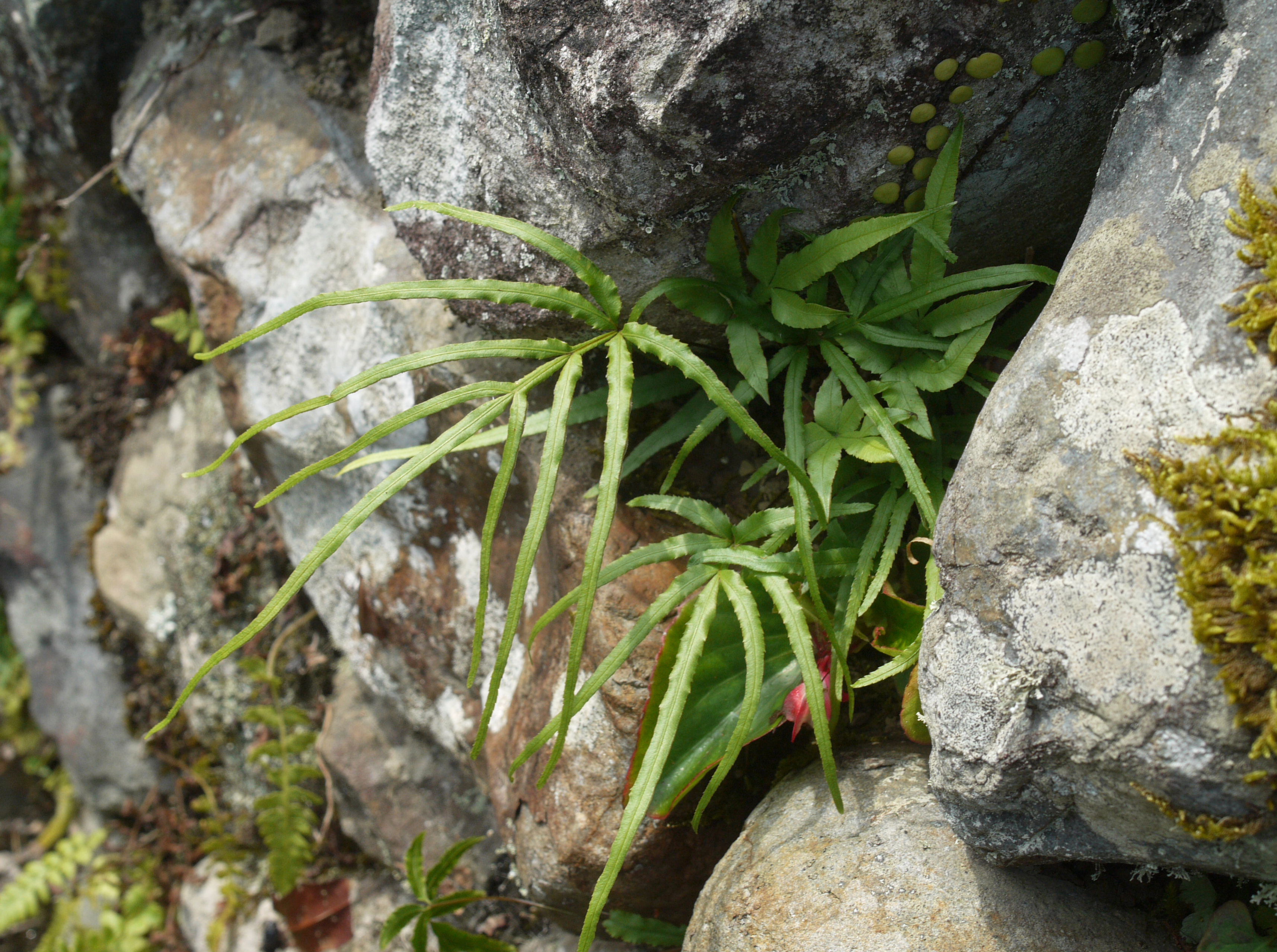 Pteris multifida (Pteridaceae)